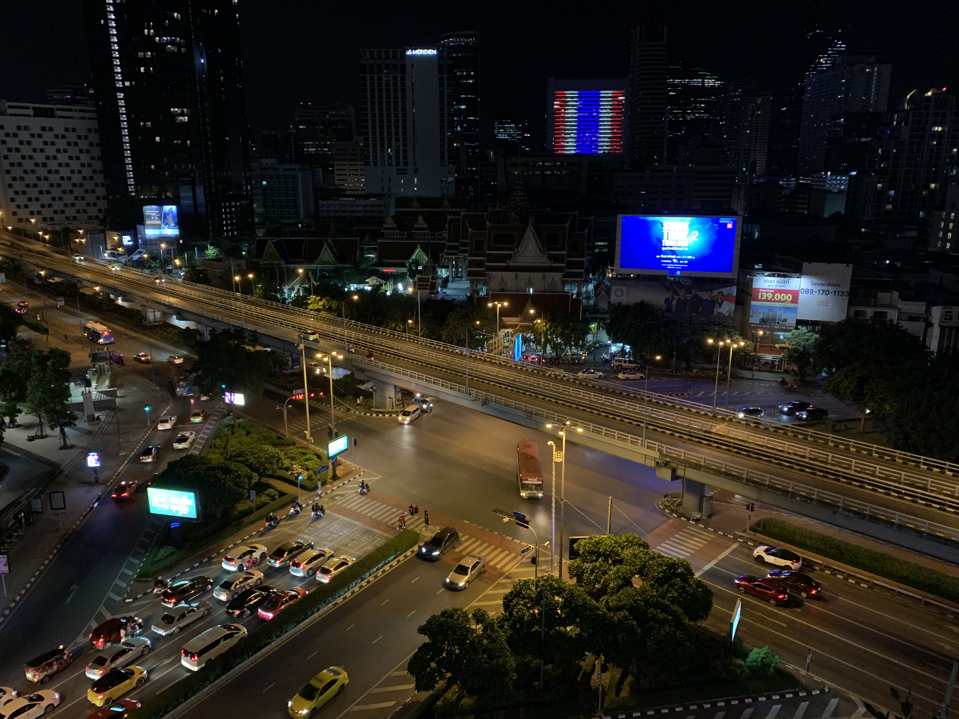 Samyan Intersection at night